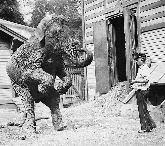 The elephant Hattie and Bill Snyder, cropped version, circa 1913, Bain News Service, publisher No date recorded on caption card Glass-negative, 5 x 7 in. or smaller Part of: George Grantham Bain Collection (Library of Congress) Repository: Library of Congress, Prints and Photographs Division, Washington, D.C. 20540 USA, Call Number: LC-B2- 2753-14